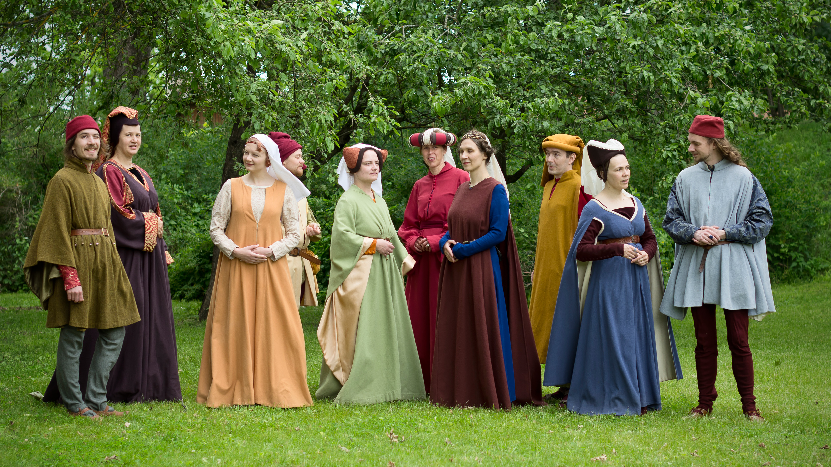 Early dance ensemble Saltatriculi